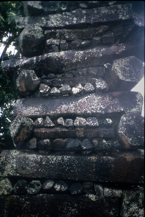 Vertical detail of the stacking of columnar basalt pieces to create a thick wall at Nan Madol, Pohnpei, Micronesia